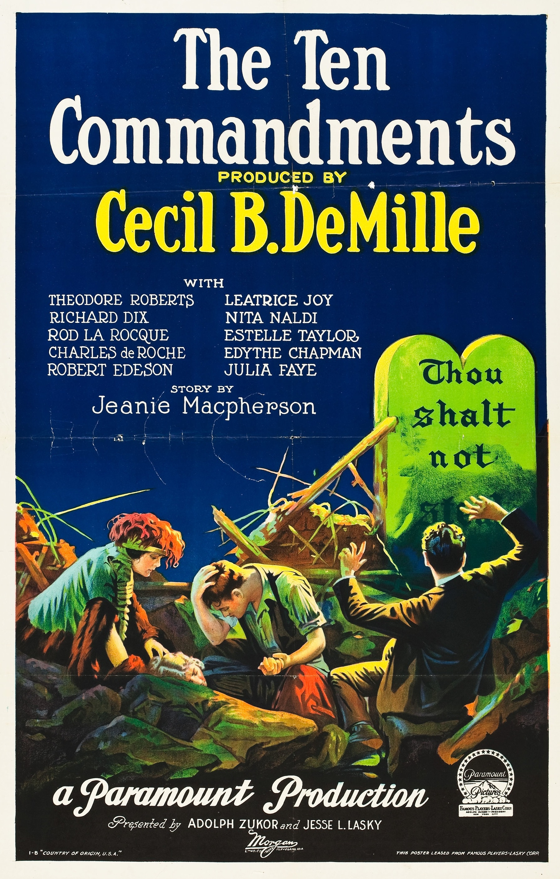 The Ten Commandments (1923) movie poster. This was made pre-1978 and clearly is not marked as copyrighted, thus public domain.